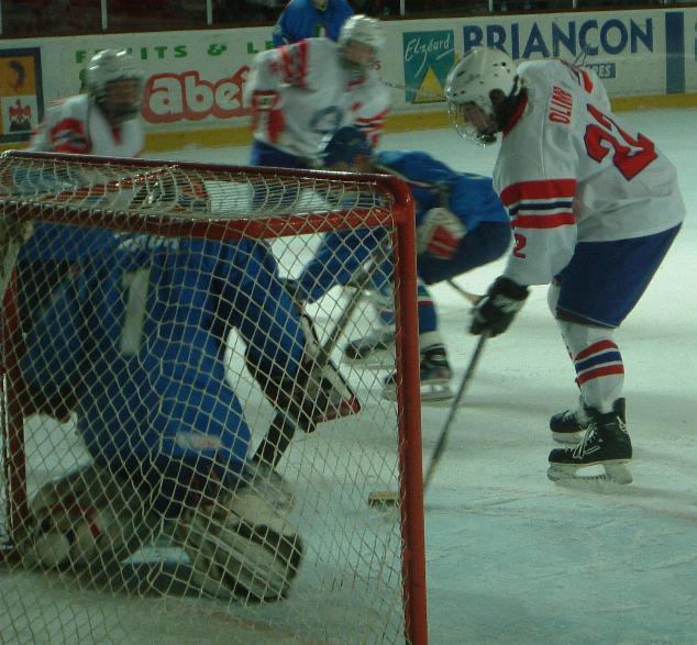 Mathis Olimb, norvegian ice hockey player